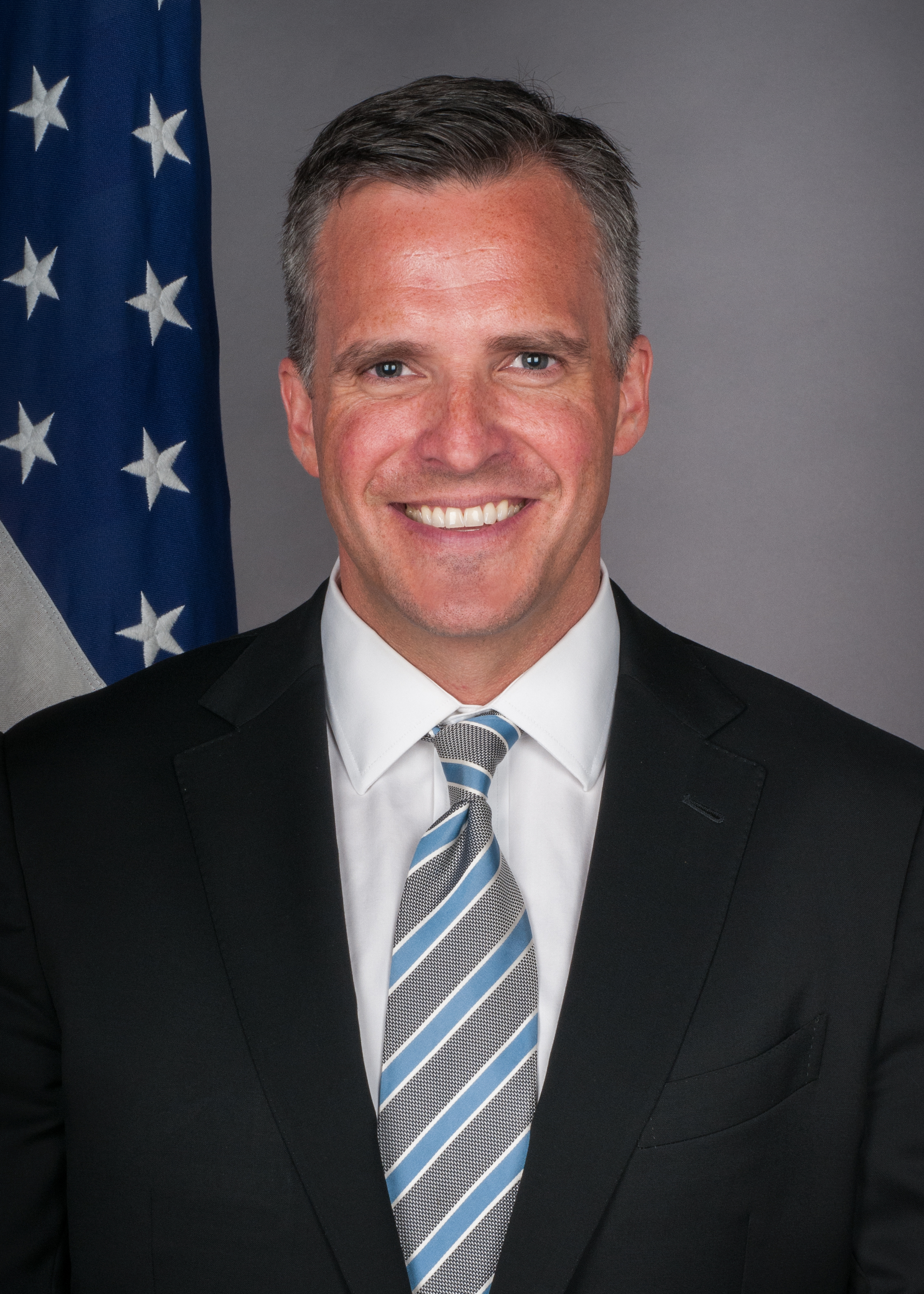 Ambassador Rufus Gifford - U.S. Ambassador to Denmark 2013-2017